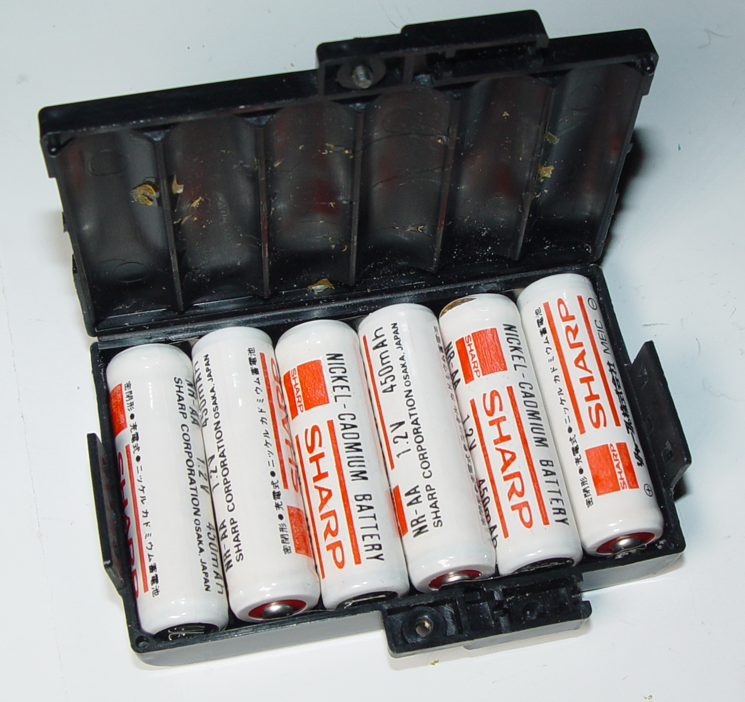 Sharp EL-8 7.2v (6 x AA) Re-chargeable Nickel-Cadmium battery giving three hours operation. (450mAh)